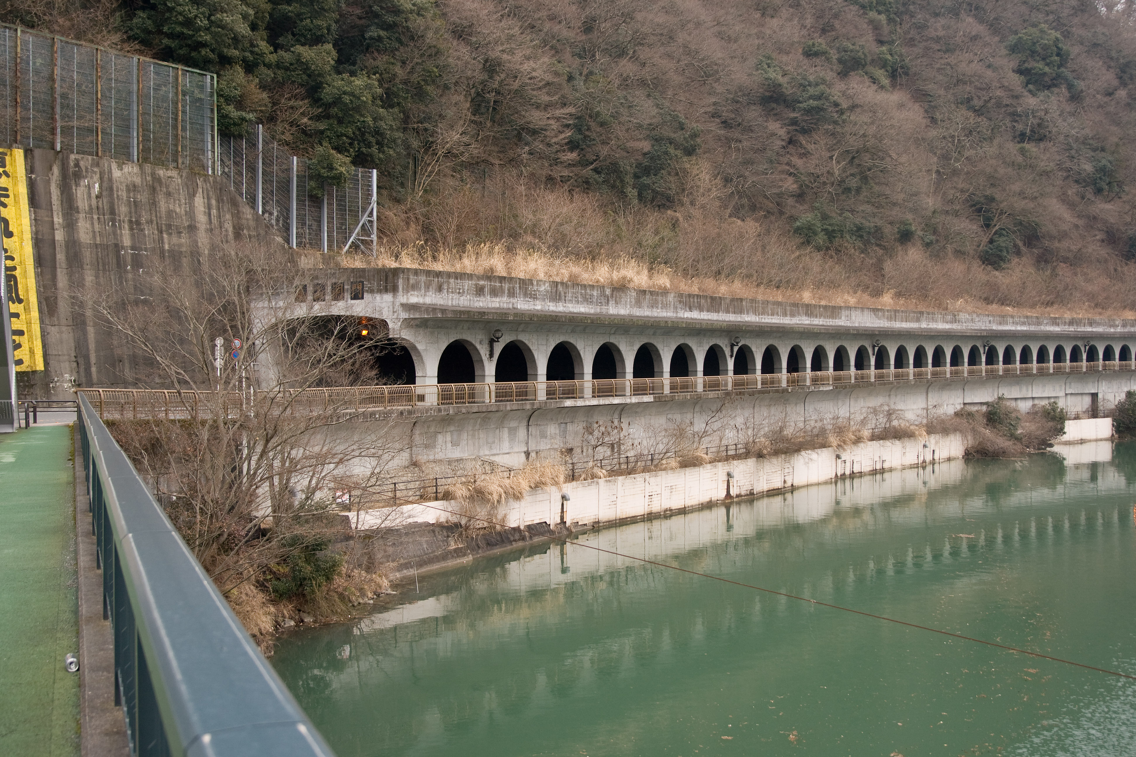 The Arashiyama tunnel (Arashiyama-doumon, あらしやまどうもん, 嵐山洞門), Kanagawa Pref., Japan.